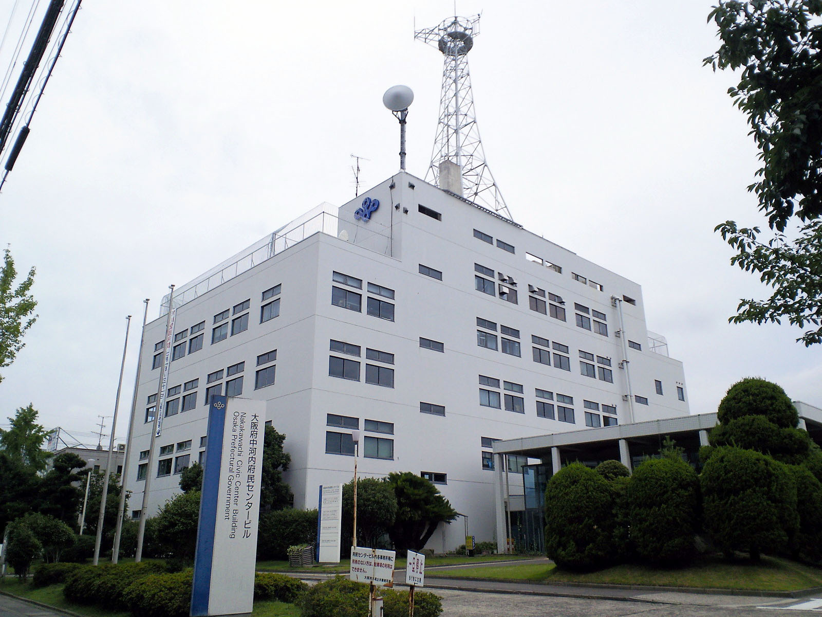 Nakakawachi Civic Center, Yao, Osaka